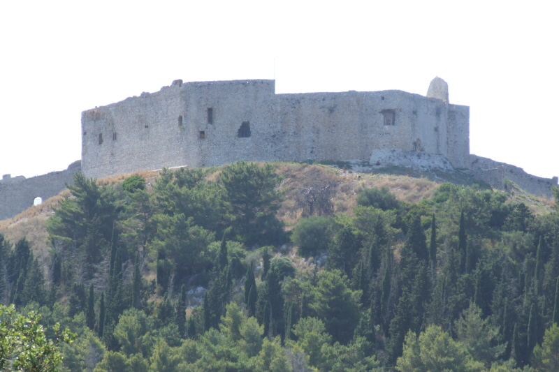 Chlemutsi Castle Kastro, Greece